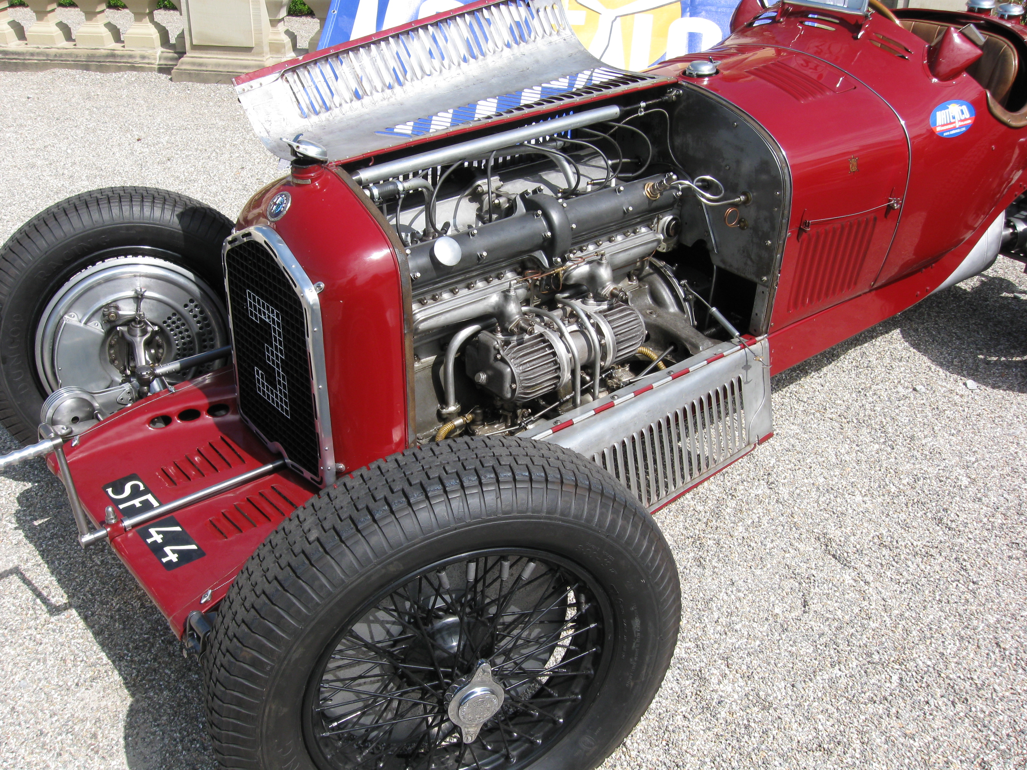 Engine view of the Alfa-Romeo P3 Type B racing car